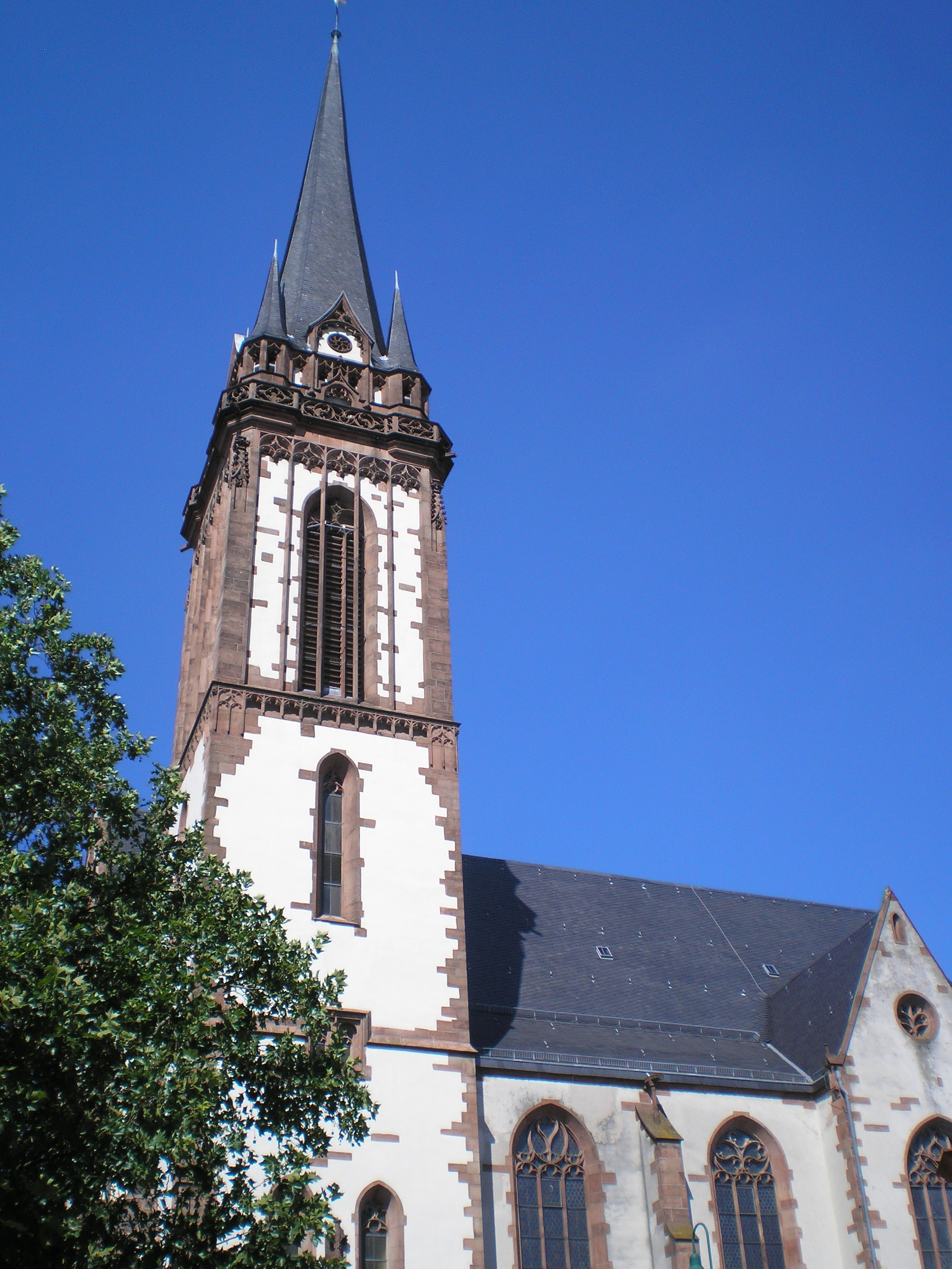 Saint Elisabeth church in Darmstadt.